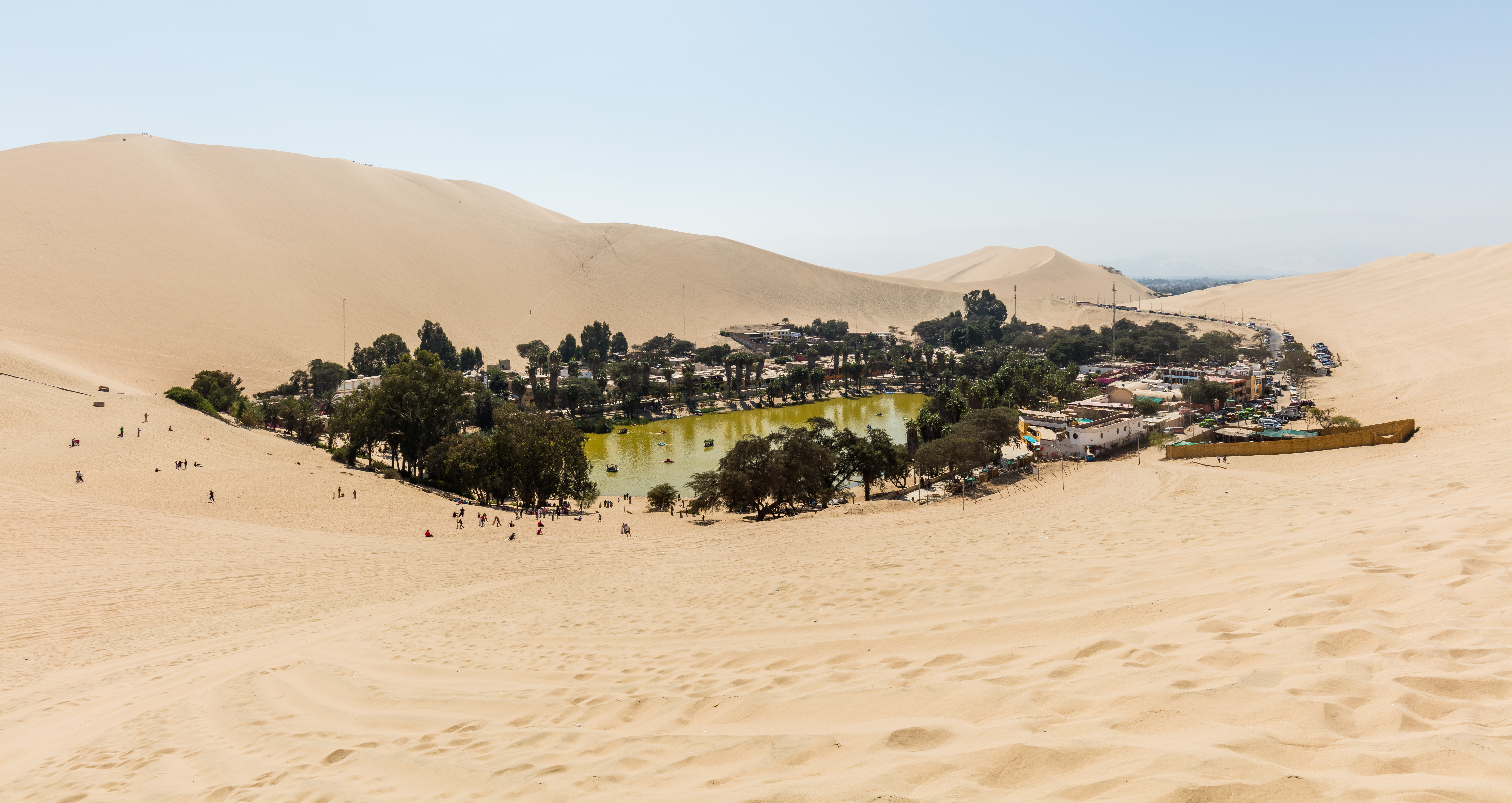 Huacachina oasis, Ica Region, Peru. The location has a population of 115 and is built around a natural lake in the desert and is a popular destination for sandboarding and buggy riding.